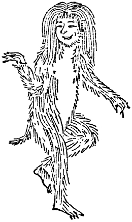 Shōjō (猩猩) from the Wakan Sansai Zue (和漢三才図会)